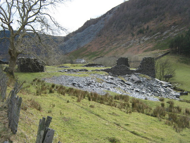 Ruin near Aberllefenni This is the remains of the cutting sheds for Cambergi Quarry. The quarry was directly above on the hillside at the top of a long incline.